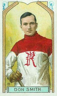 Hockey player Don Smith of the Renfrew Creamery Kings on a 1911 Imperial Tobacco Co. hockey card